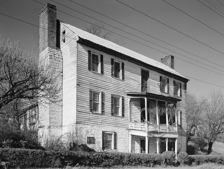 Netherland Inn, 2144 Knoxville Highway, Kingsport (Sullivan County, Tennessee) cropped This file comes from the Historic American Buildings Survey (HABS), Historic American Engineering Record (HAER) or Historic American Landscapes Survey (HALS). These are programs of the National Park Service established for the purpose of documenting historic places. Records consist of measured drawings, archival photographs, and written reports. When reusing please credit: Library of Congress, Prints & Photographs Division, TENN,82-KINPO,1-1 This tag does not indicate the copyright status of the attached work. A normal copyright tag is still required. See Commons:Licensing. This work is in the public domain in the United States because it is a work prepared by an officer or employee of the United States Government as part of that person’s official duties under the terms of Title 17, Chapter 1, Section 105 of the US Code. Note: This only applies to original works of the Federal Government and not to the work of any individual U.S. state, territory, commonwealth, county, municipality, or any other subdivision. This template also does not apply to postage stamp designs published by the United States Postal Service since 1978. (See § 313.6(C)(1) of Compendium of U.S. Copyright Office Practices). It also does not apply to certain US coins; see The US Mint Terms of Use. This file has been identified as being free of known restrictions under copyright law, including all related and neighboring rights.